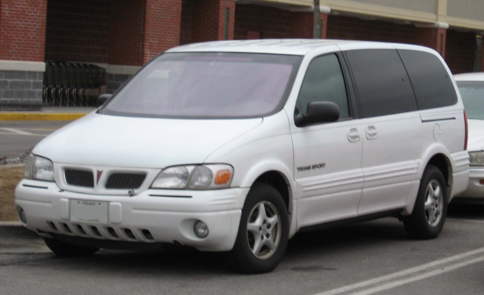 1997-1998 Pontiac Trans Sport photographed in USA.